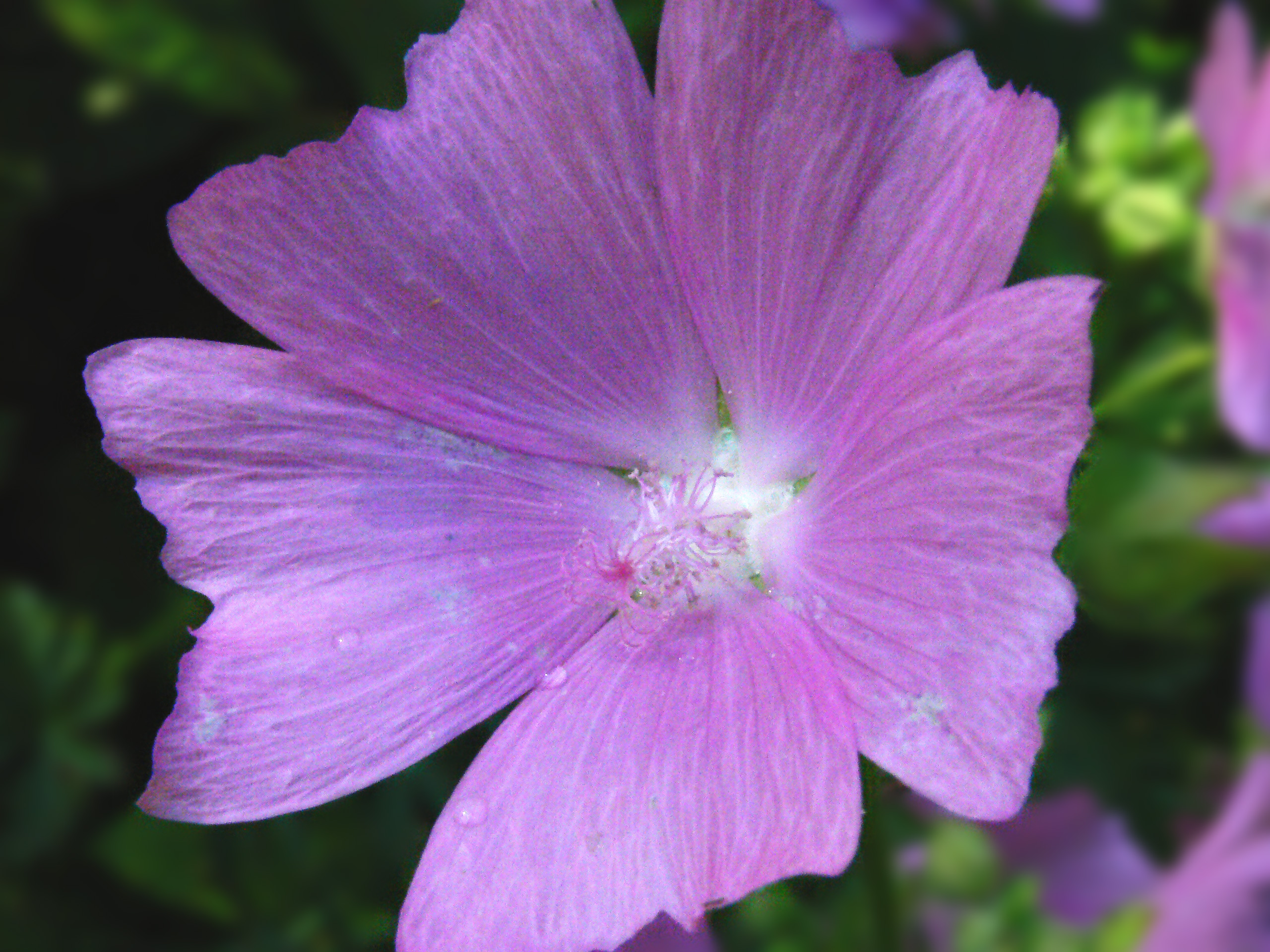 Close-up photograph of the flower of a hollyhock mallow (Malva alcea) growing in Albachten, Germany